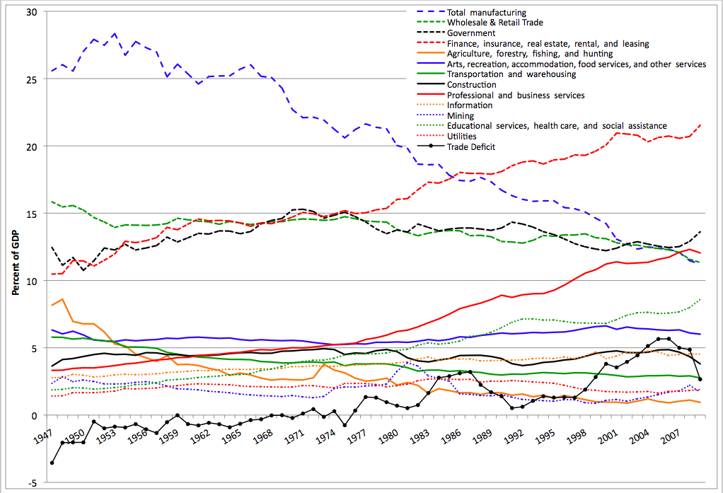 Sectors of US Economy as Percent of GDP 1947-2009 Sources: Economic Report of the President: 2011 Report Spreadsheet Tables, B-12. Gross domestic product (GDP) by industry, value added, in current dollars and as a percentage of GDP, 1979-2009, U.S. Government Printing Office [1] (11/25/2011) Economic Report of the President: 2003 Report Spreadsheet Tables, B-12. Gross domestic product by industry, 1959-2001, U.S. Government Printing Office [2] (11/25/2011) Value Added by Industry in Current Dollars, Quantity Indexes by Industry, and Price Indexes by Industry, 1947-1997; Value Added by Industry, Gross Output by Industry, Intermediate Inputs by Industry, and the Components of Value Added by Industry, 1987-1997, Gross-Domestic-Product-(GDP)-by-Industry Data, Bureau of Economic Analysis, U.S. Department of Commerce, [3] (11/25/2011) MERCHANDISE IMPORTS, EXPORTS, AND TRADE BALANCE: 1790-2006 (percent of GDP) [4] (11/27/2011)